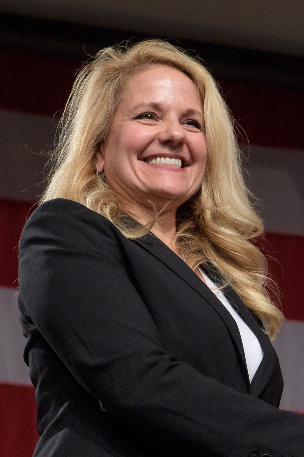 SpaceX President and Chief Operation Officer Gwynne Shotwell receives an American flag from NASA Administrator Jim Bridenstine during a NASA event announcing the astronauts assigned to crew the first flight tests and missions of the Boeing CST-100 Starliner and SpaceX Crew Dragon, Friday, Aug. 3, 2018 at NASA’s Johnson Space Center in Houston, Texas. The flag is to be flown to the International Space Station onboard SpaceX’s Demo-2 crew flight test and retrieved later during the SpaceX Crew Dragon first mission to station. Photo Credit: (NASA/Bill Ingalls)